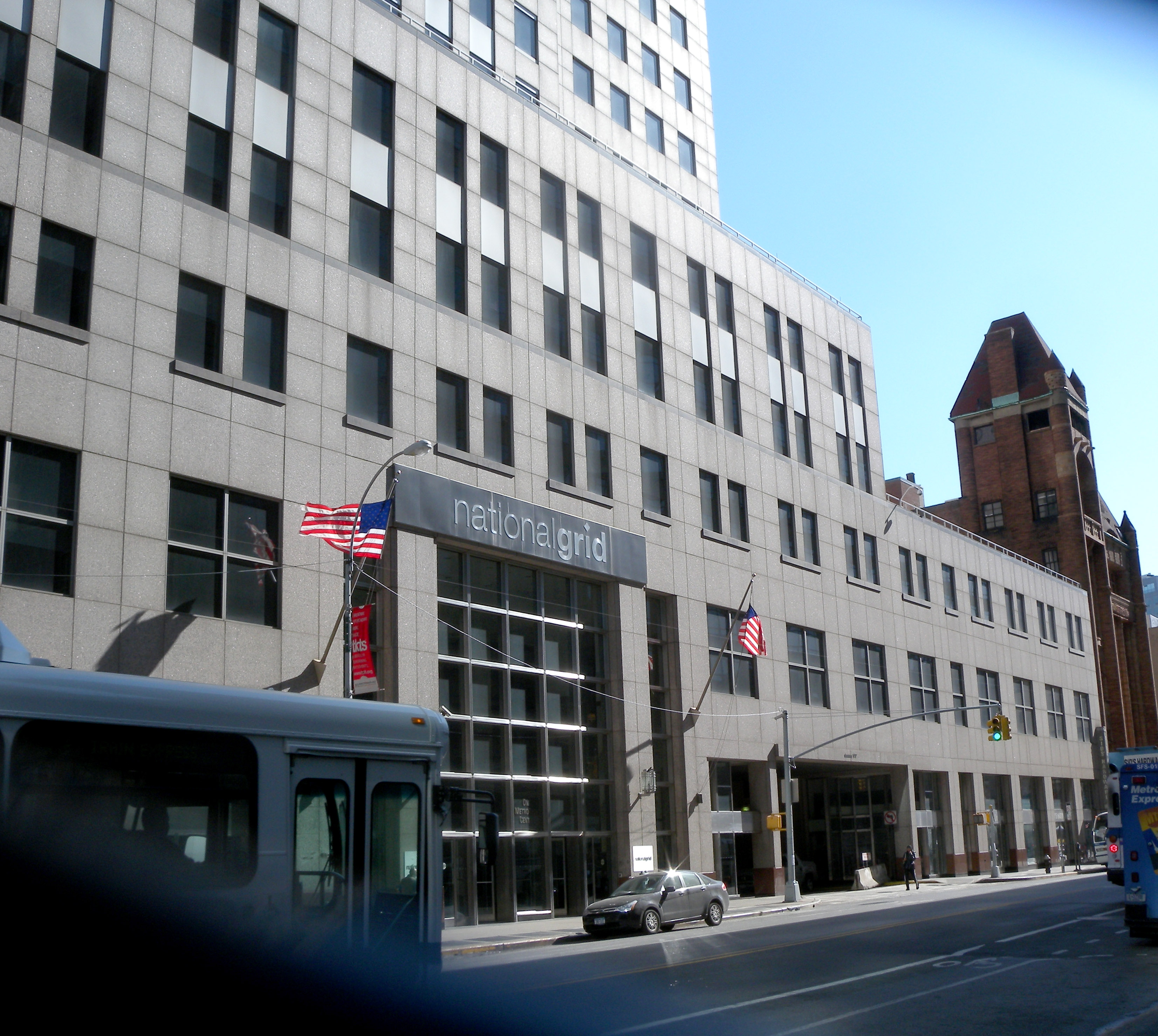 Looking south across Jay Street at National Grid building, previously HQ for Keyspan and Brooklyn Union Gas, on a sunny midday.